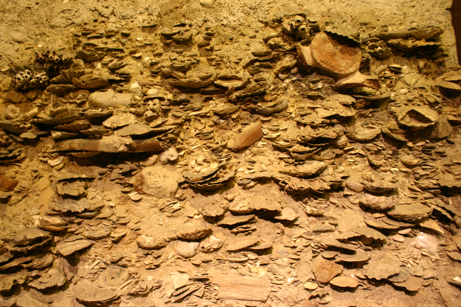 Chunk of the fossil-rich Yorktown Formation at the Virginia Living Museum in Newport News, Virginia